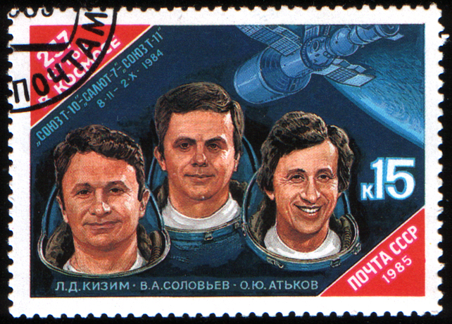 USSR stamp, Space Research. Date of issue: 25th June 1985. Designer: G. Komlev. Michel catalogue number: 5524. Miniature Sheet Klb.5524. 15 K. multicoloured. Portraits of cosmonauts: L.D. Kizim, V.A. Solov'ev, O.Yu. Ot'kov; orbital station Soyuz-T-10, text “273 days in space”.